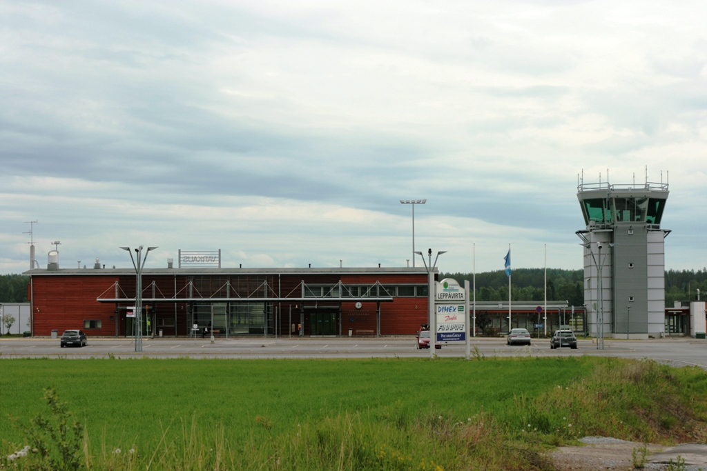 Varkaus Airport's new building and flight information tower at Joroinen.